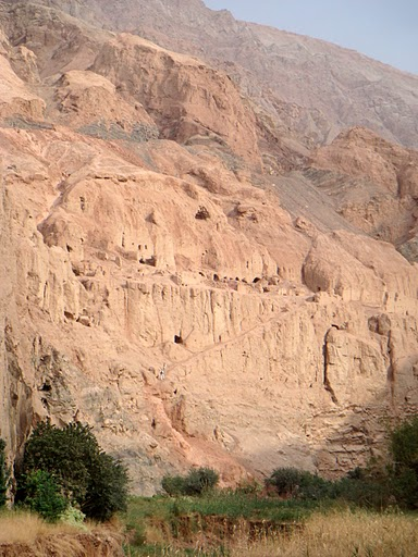 Cliff with Buddhist caves near Tuyuk̡ in Piqan County, Turpan City, Xinjiang Uyghur Autonomous Region, People’s Republic of China